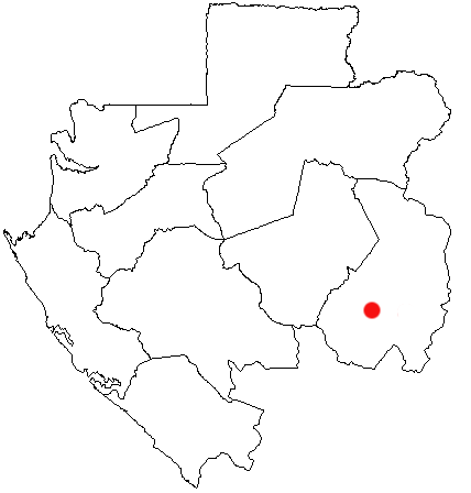 Franceville, Gabon Location Map; created with the GIMP. Made by User:Acntx.